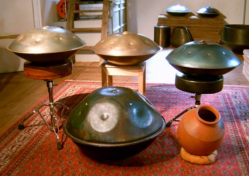 Front row: Ghatam (right) and the first idea of the Hang from November 1999 (left); second row: first generation Hang built 2005 (right), second generation Hang built 2006 (middle), second generation Hang built 2007 (left)